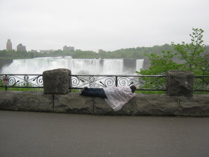 Planking at Niagara Falls, Ontario, Canada